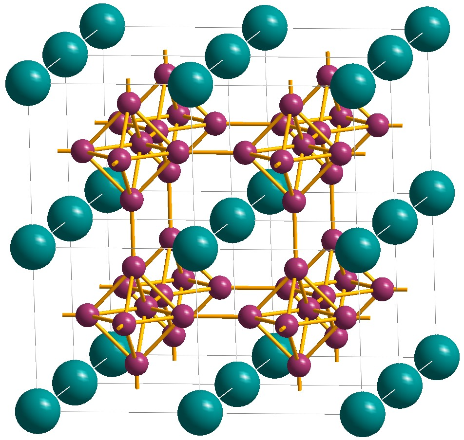 Structure of CaB6 (common to hexaborides); borons are red, bonding depiction is naive. Journal = JOURNAL OF SOLID STATE CHEMISTRY Year = 1970 Volume = 2 Page = 332-342 Title = Structure Electronique de Quelques Hexaborures de Type CaB6 Authors = Etourneau J., Mercurio J.P., Naslain R., Hagenmuller P.